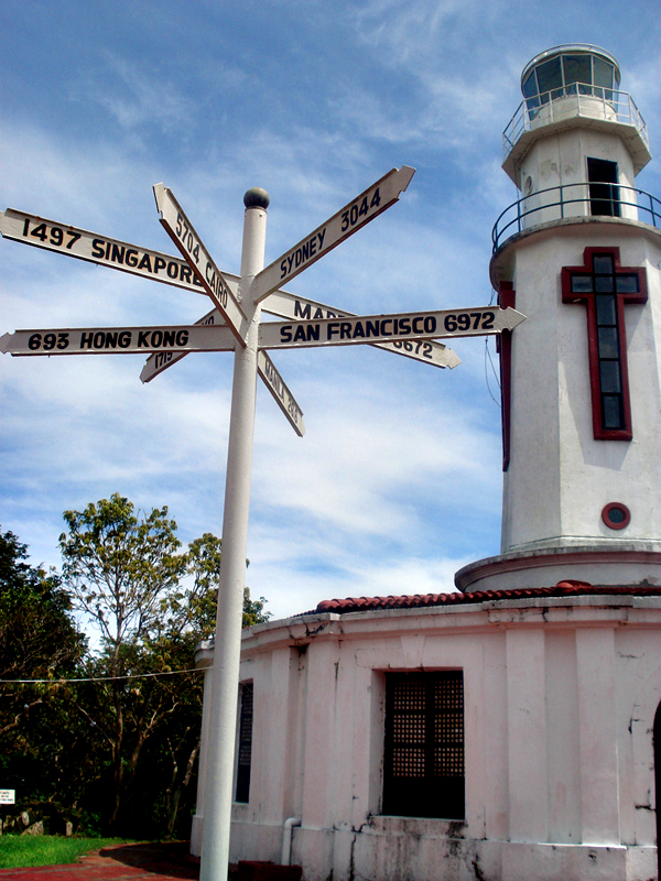 This lighthouse is one of the most popular spots in Corregidor as it offers a breathtaking view of the island.